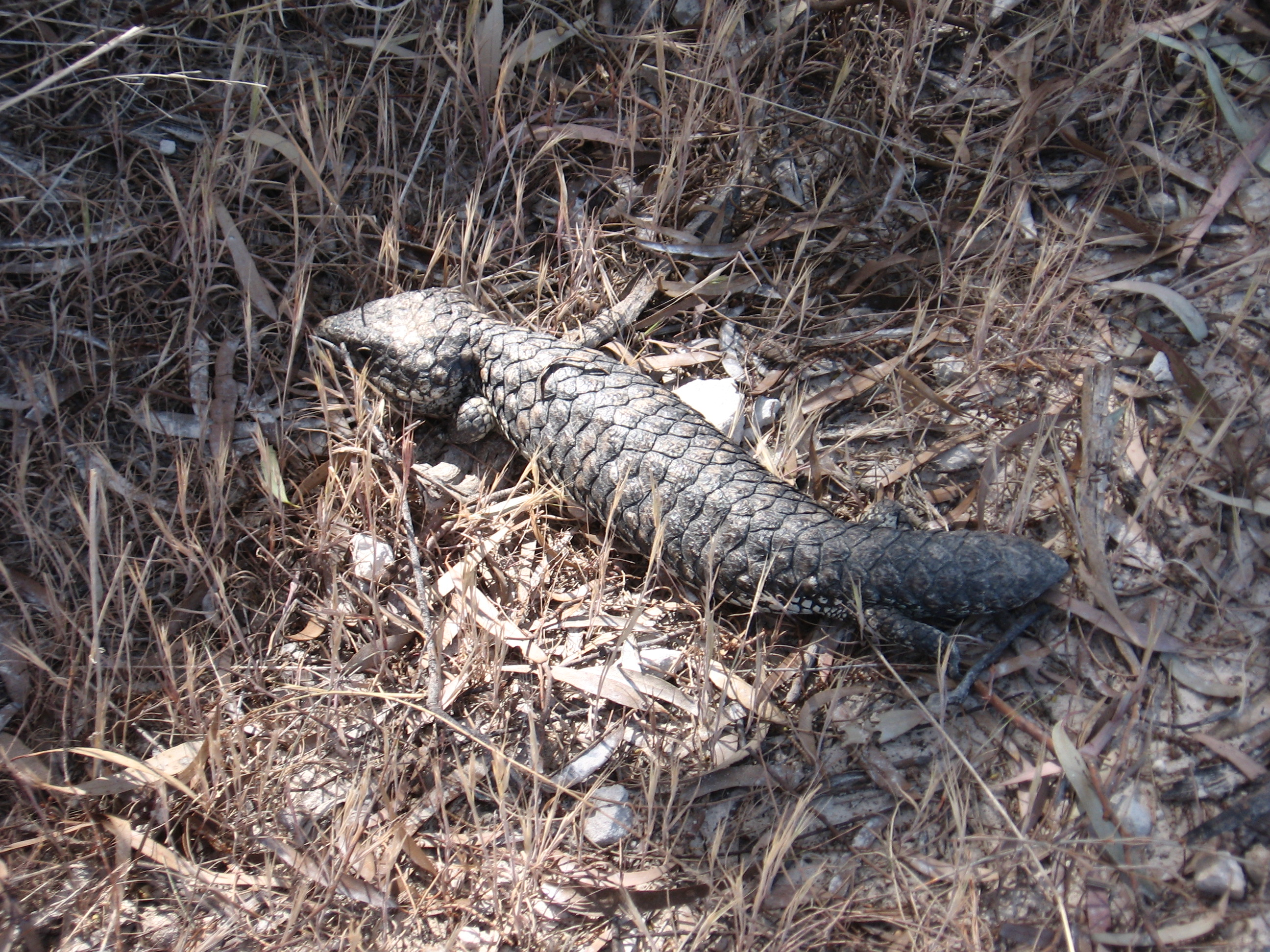 Tiliqua rugosa, sleepy lizard, bobtail, shingle back